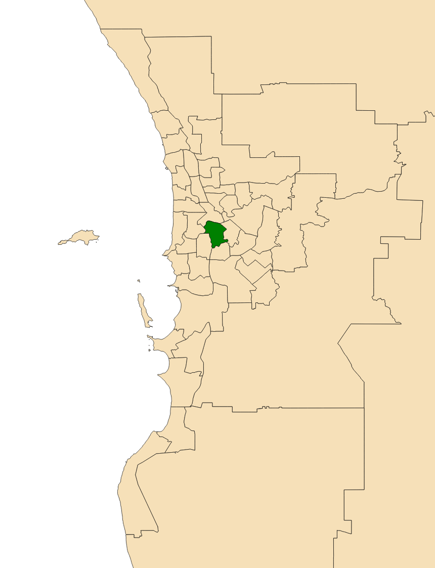 Location of the electoral district of South Perth in the Perth metropolitan area, Western Australia as of the 2017 WA state election.